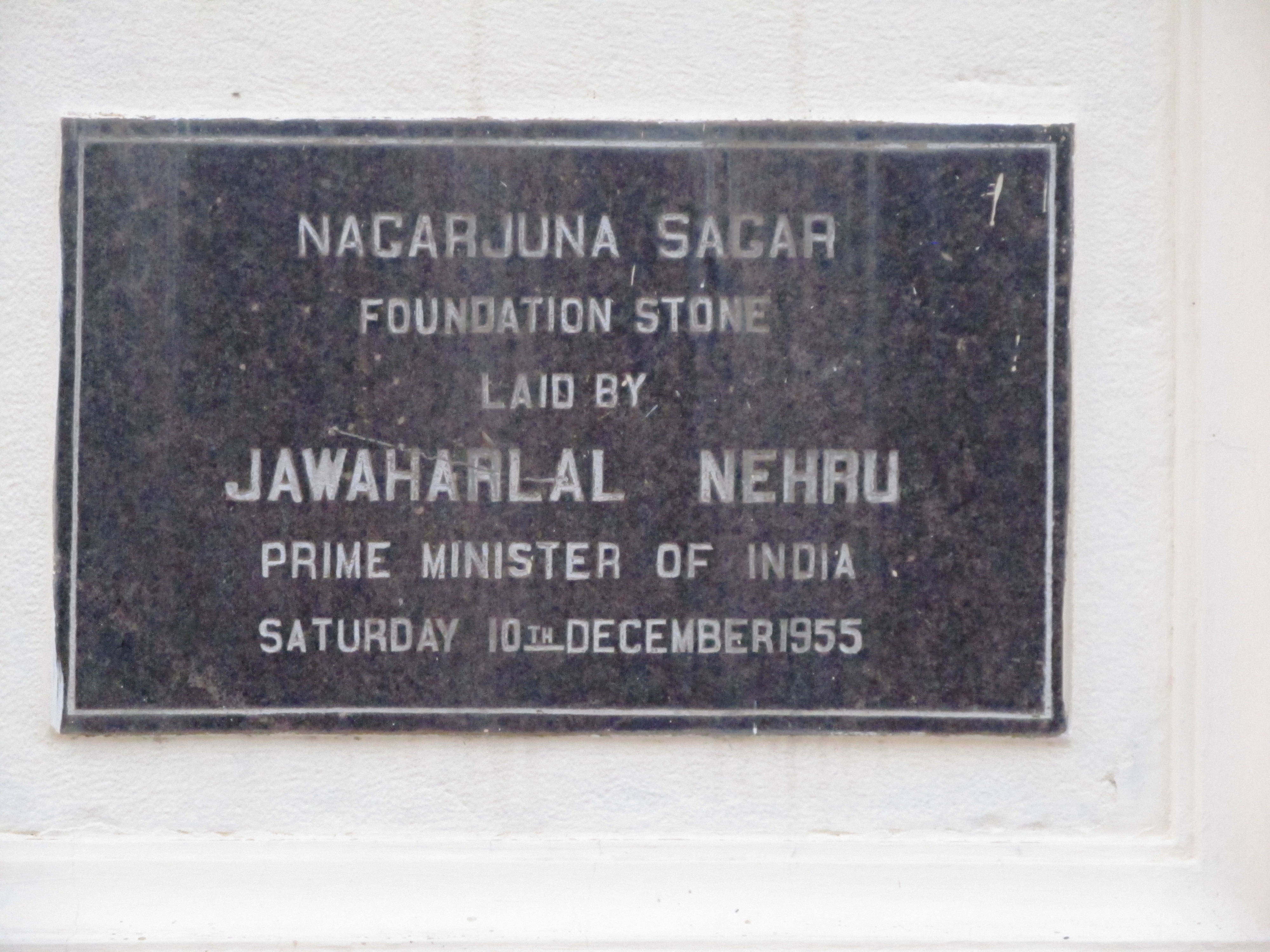 Foundation stone of Nagarjuna Sagar